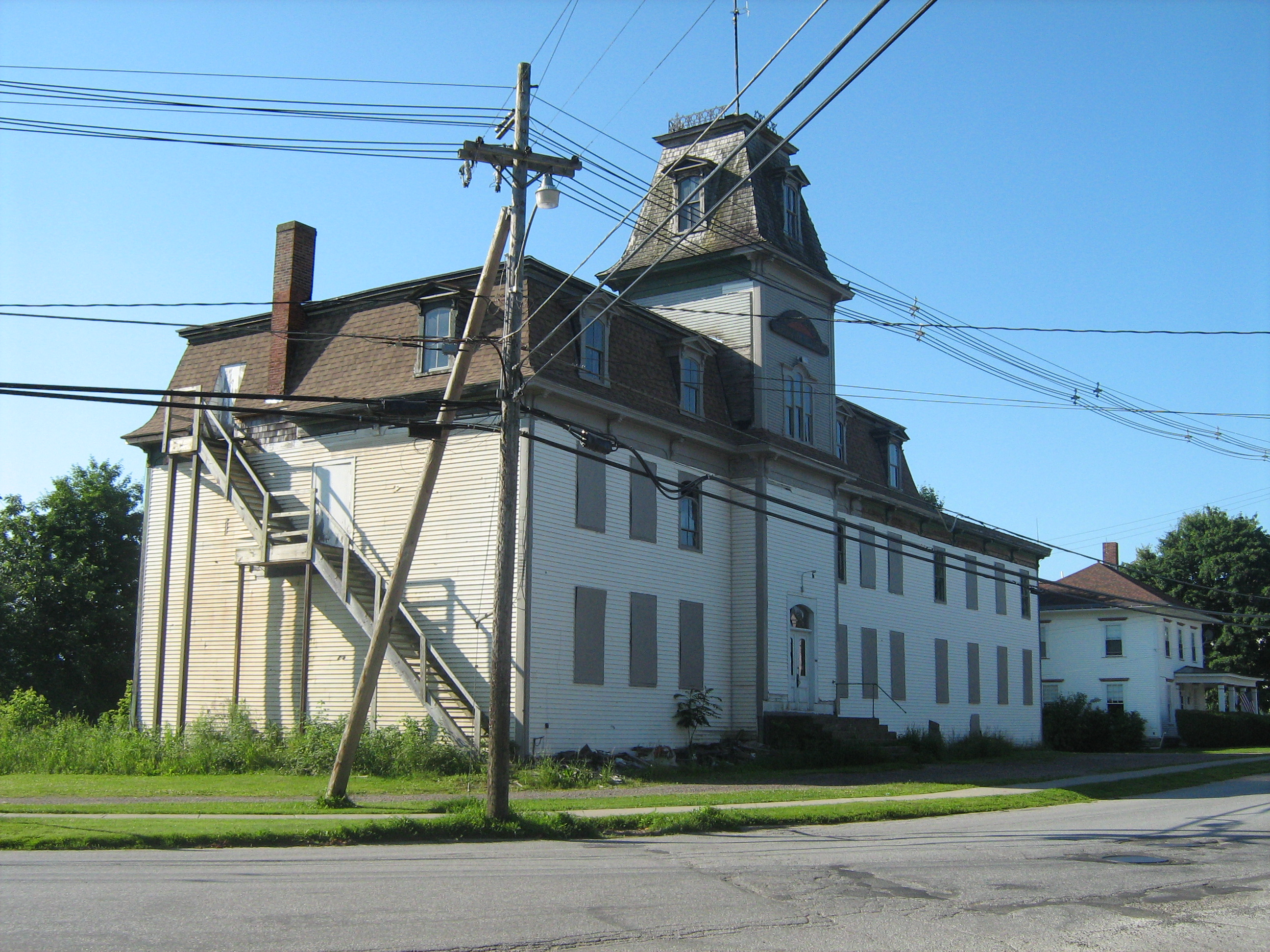 Kendall sold horse liniment ("Kendall's Spavin Cure") all over the US.